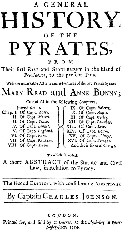 Cover page of "A General History of the Pyrates" (1724) by Captain Charles Johnson (volume 1).